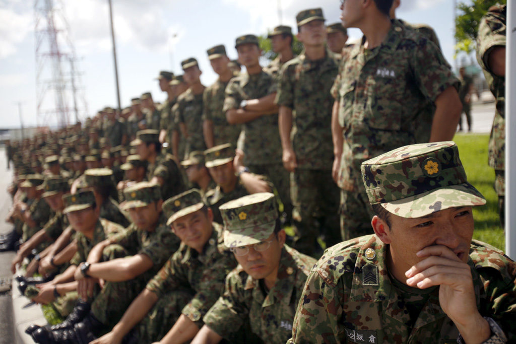 Japan Ground Self Defense Force officer candidates watch Marines take part in a simulated battle against role players